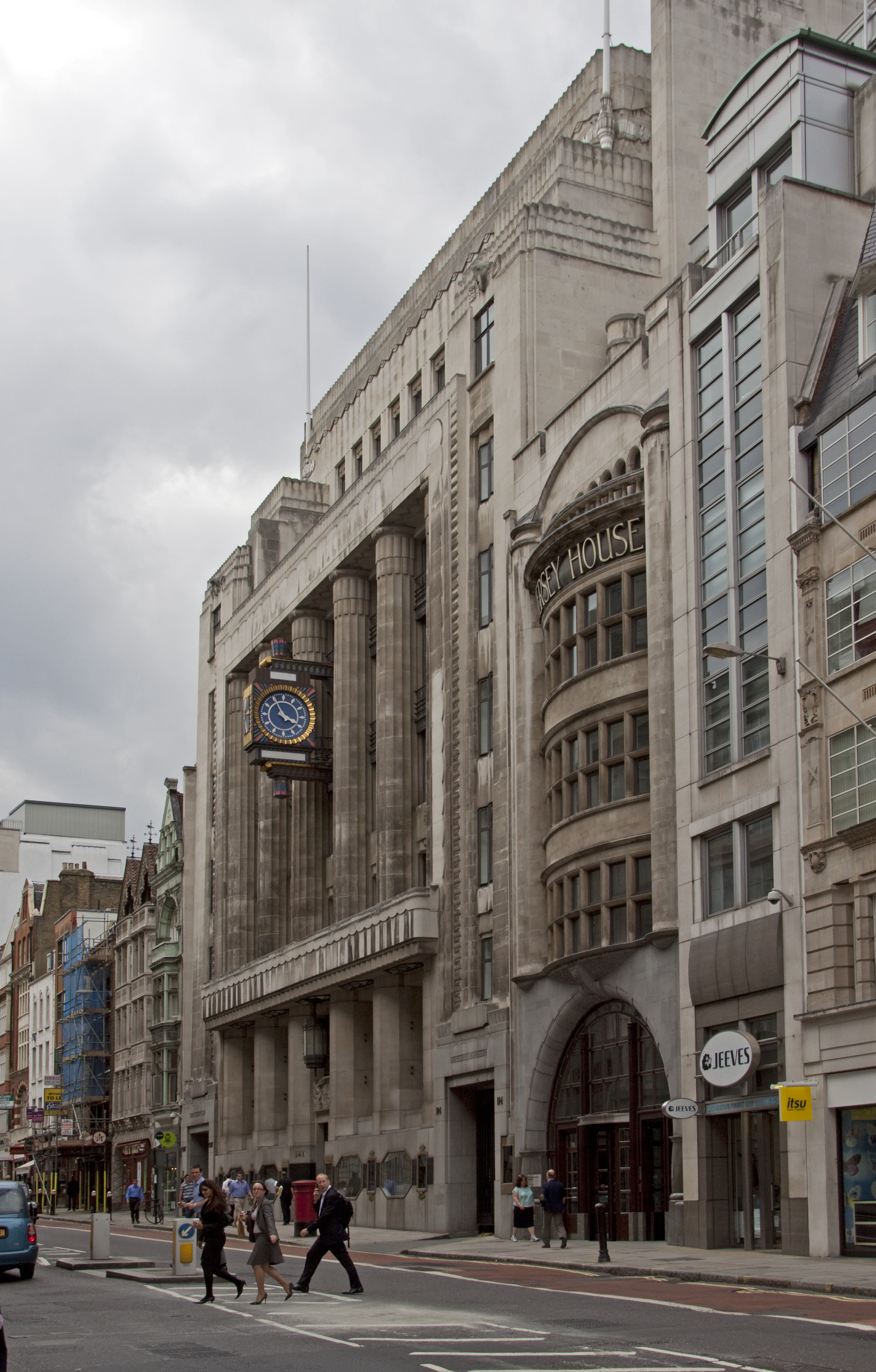 Formerly the Daily Telegraph Building